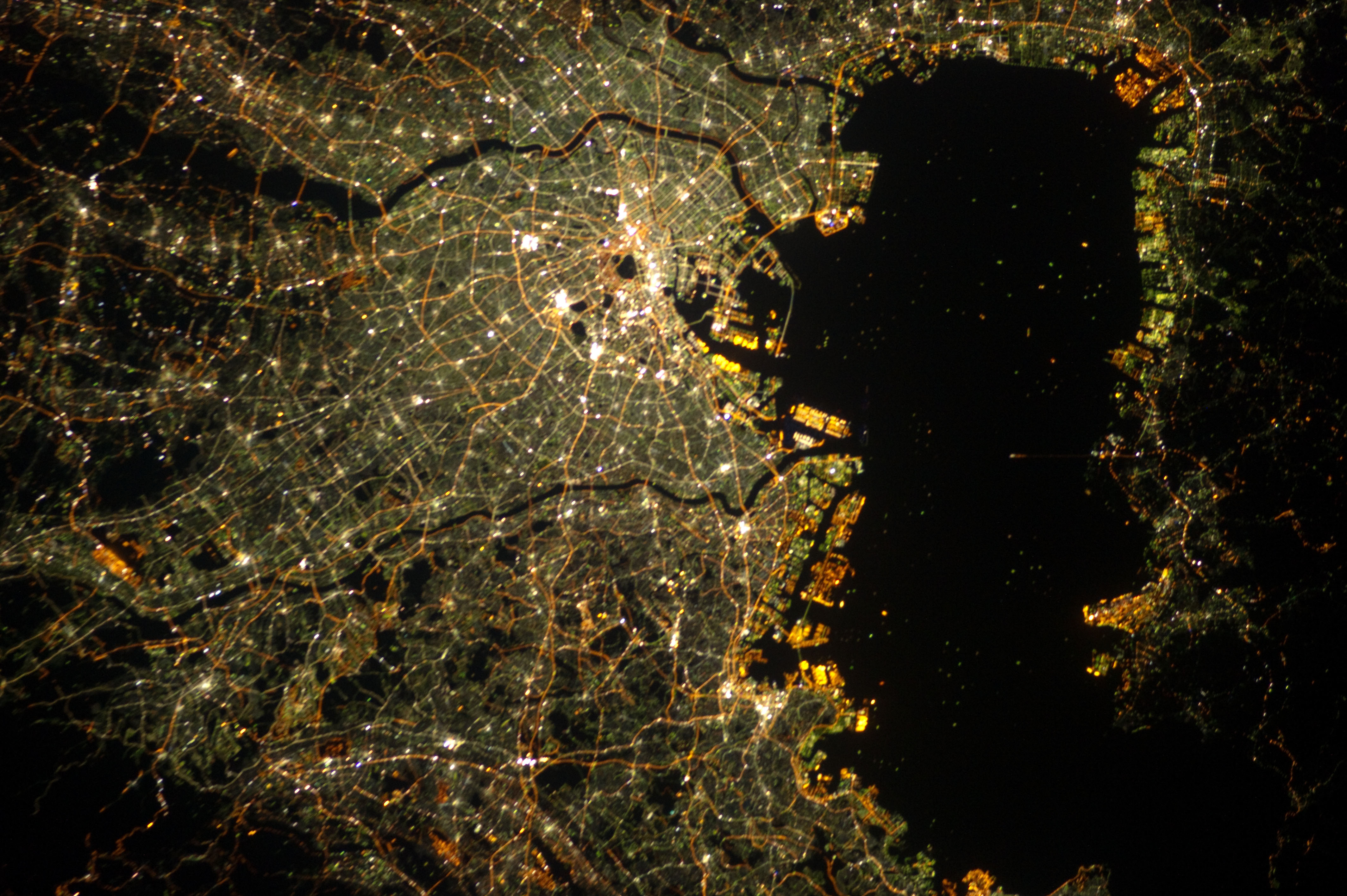 Tokyo, Japan An image that reminds of the opening scene of the manga film classic Akira, this futuristic night-time shot of the capital of Japan was taken in 2012 from the International Space Station. Tokyoâs sprawling metropolis is illuminated by streetlights emitting the characteristic blue hue of Asian cities. The brightest white lights in the city centre show a large black spot where the Imperial palace and garden take up a large part of Chiyoda ward. The bright lights are made more remarkable by the blackness of Tokyo bay where lights from boats reveal the only sign of human presence. More than 13 million inhabitants live in the Tokyo prefecture spreading out over 2000 km2, but they have not started living in Tokyo bay, yet. ESAâs Nightpod camera aid helps astronauts track objects on Earth from the International Space Station. Following Earthâs motion automatically, the tripod creates clear images in low lights with off-the-shelf professional cameras â 400 km above our planet in space. Credit: ESA/NASA NASA image use policy. NASA Goddard Space Flight Center enables NASA’s mission through four scientific endeavors: Earth Science, Heliophysics, Solar System Exploration, and Astrophysics. Goddard plays a leading role in NASA’s accomplishments by contributing compelling scientific knowledge to advance the Agency’s mission. Follow us on Twitter Like us on Facebook Find us on Instagram